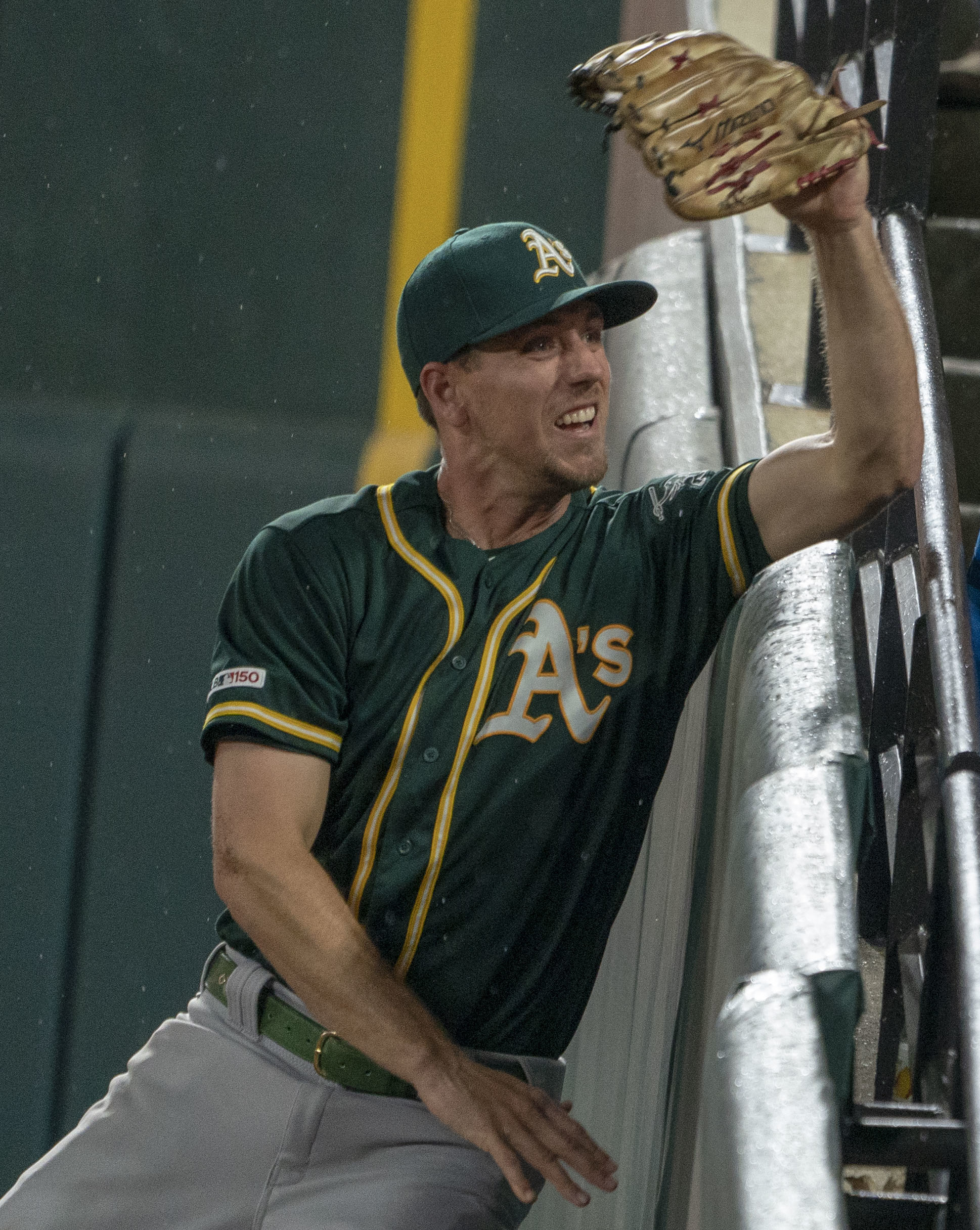 Stephen Piscotty of the Oakland Athletics attempts to make a catch during a 2019 game at Camden Yards in Baltimore